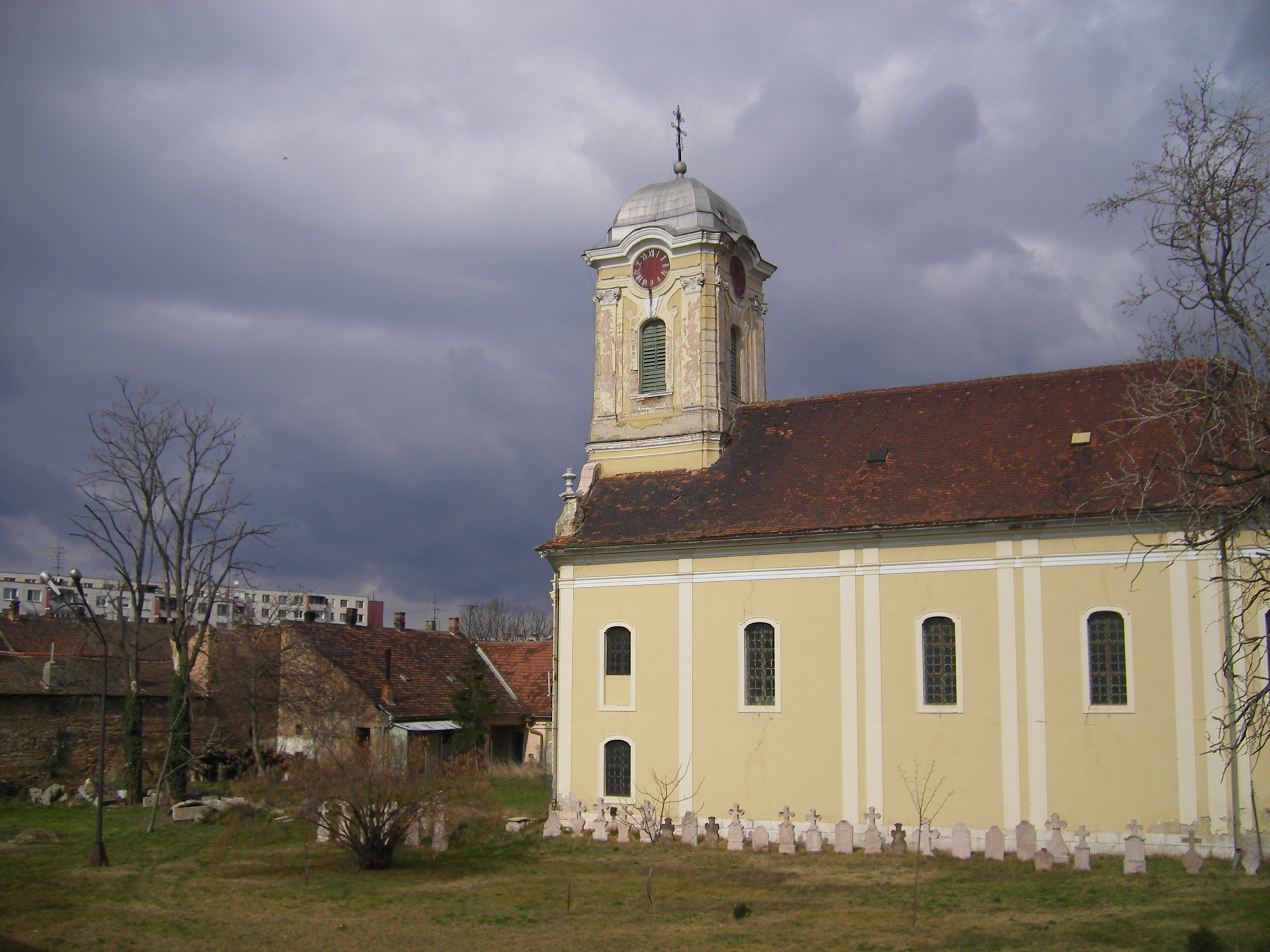 Komárno, Serbian orthodox church